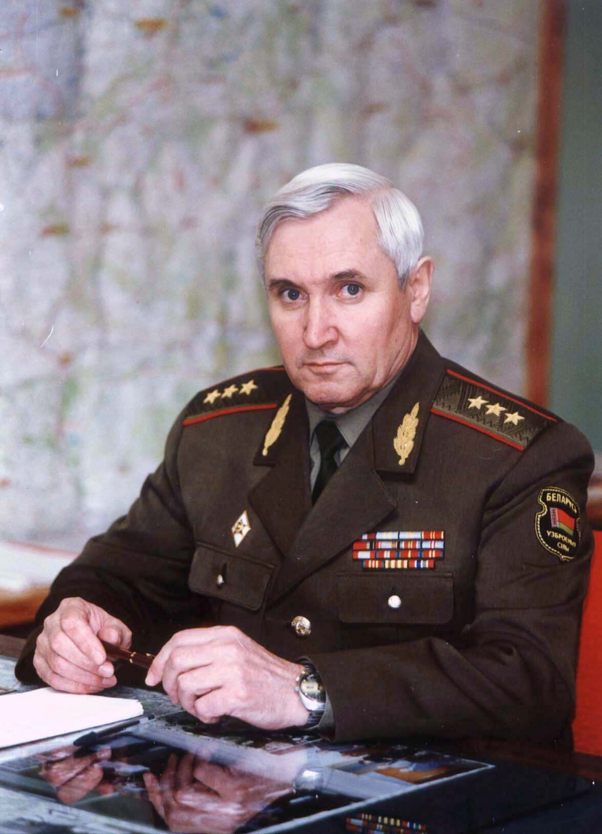 Belarusian Minister of Defense Aleksandr Petrovich Chumakov around 2000